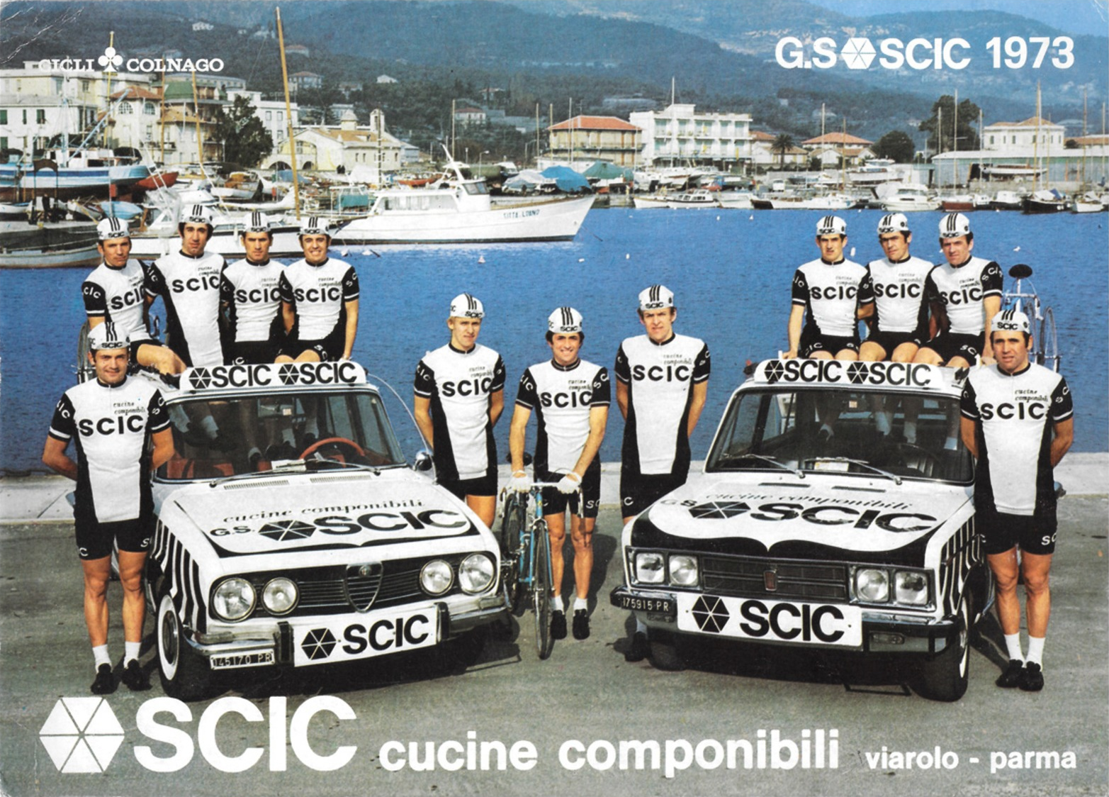 Scic cycling team 1973 postcard